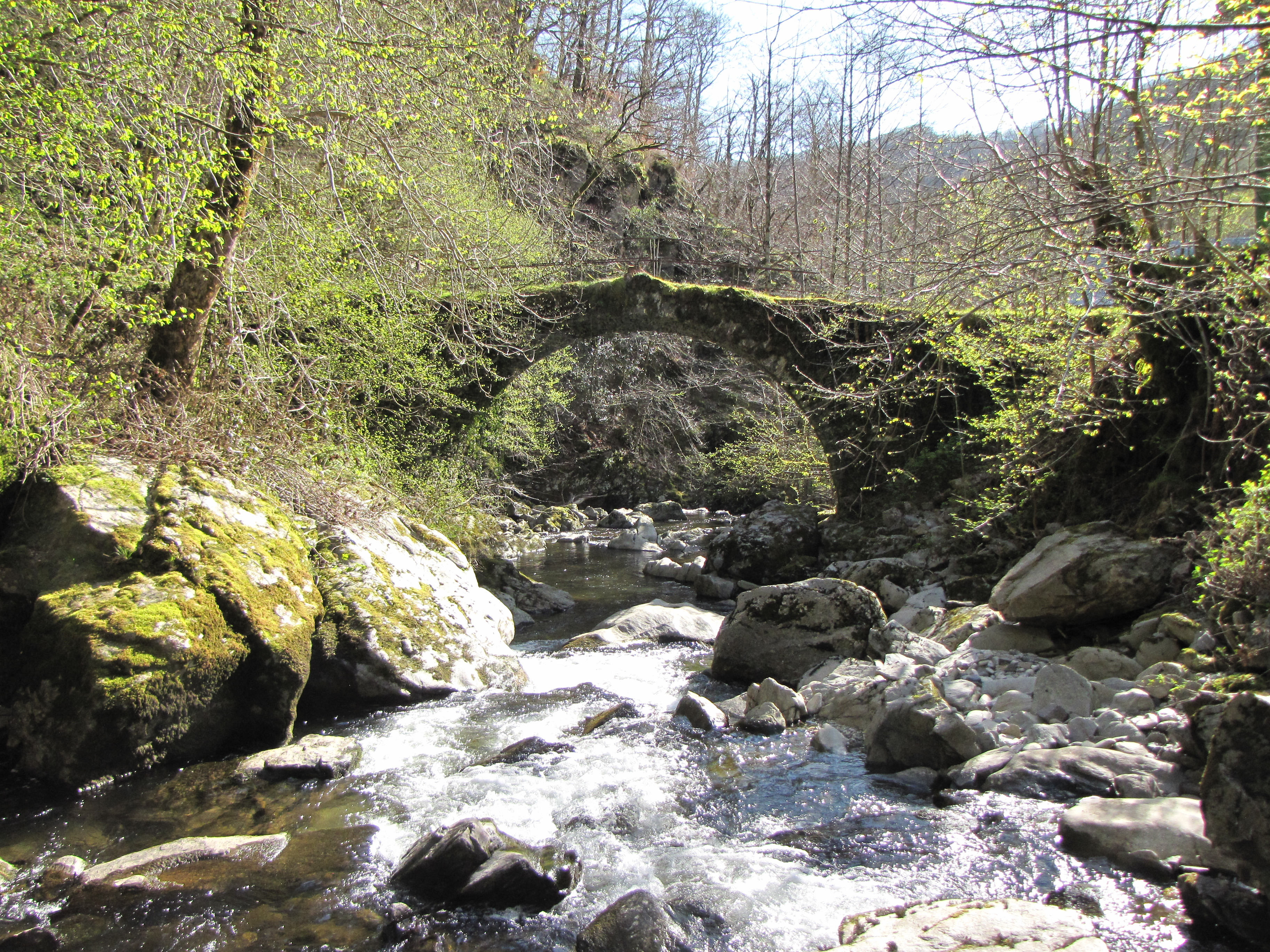 The "Boralde" of Flaujac, near Bonneval Abbey (France, Aveyron)